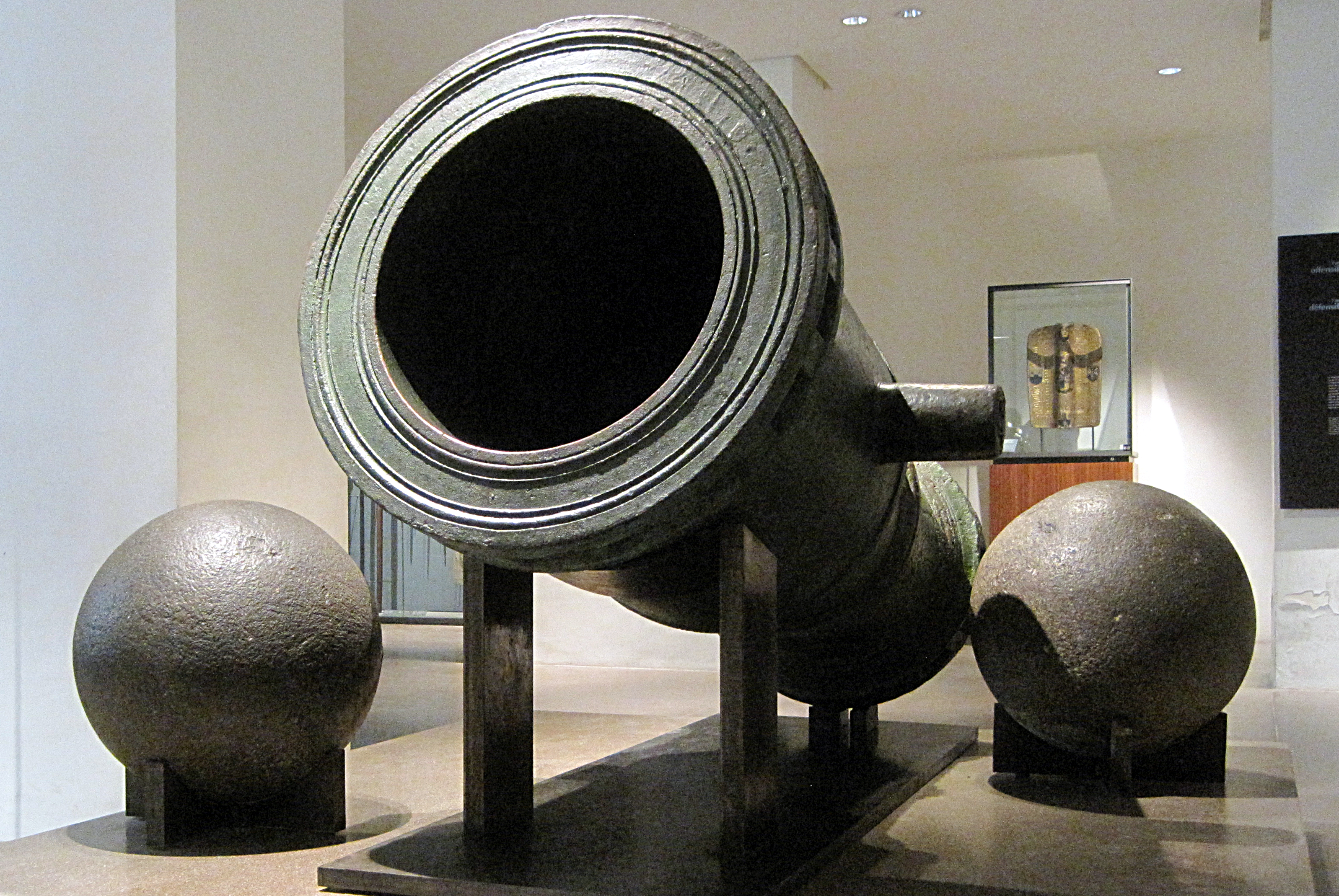 The so-called Aubusson mortar bombards, the largest known in the world both by its dimensions and its mass, (caliber: 580 mm, length: 1.95 m / mass: 3.325 t), made for the defense of Rhodes at the request of Pierre d'Aubusson, grand master of the Order of Hospitallers of Saint-Jean-de-Jerusalem during the first half of the 15th century, kept at the Musée de l'Armée (Hotel des Invalides) in Paris.